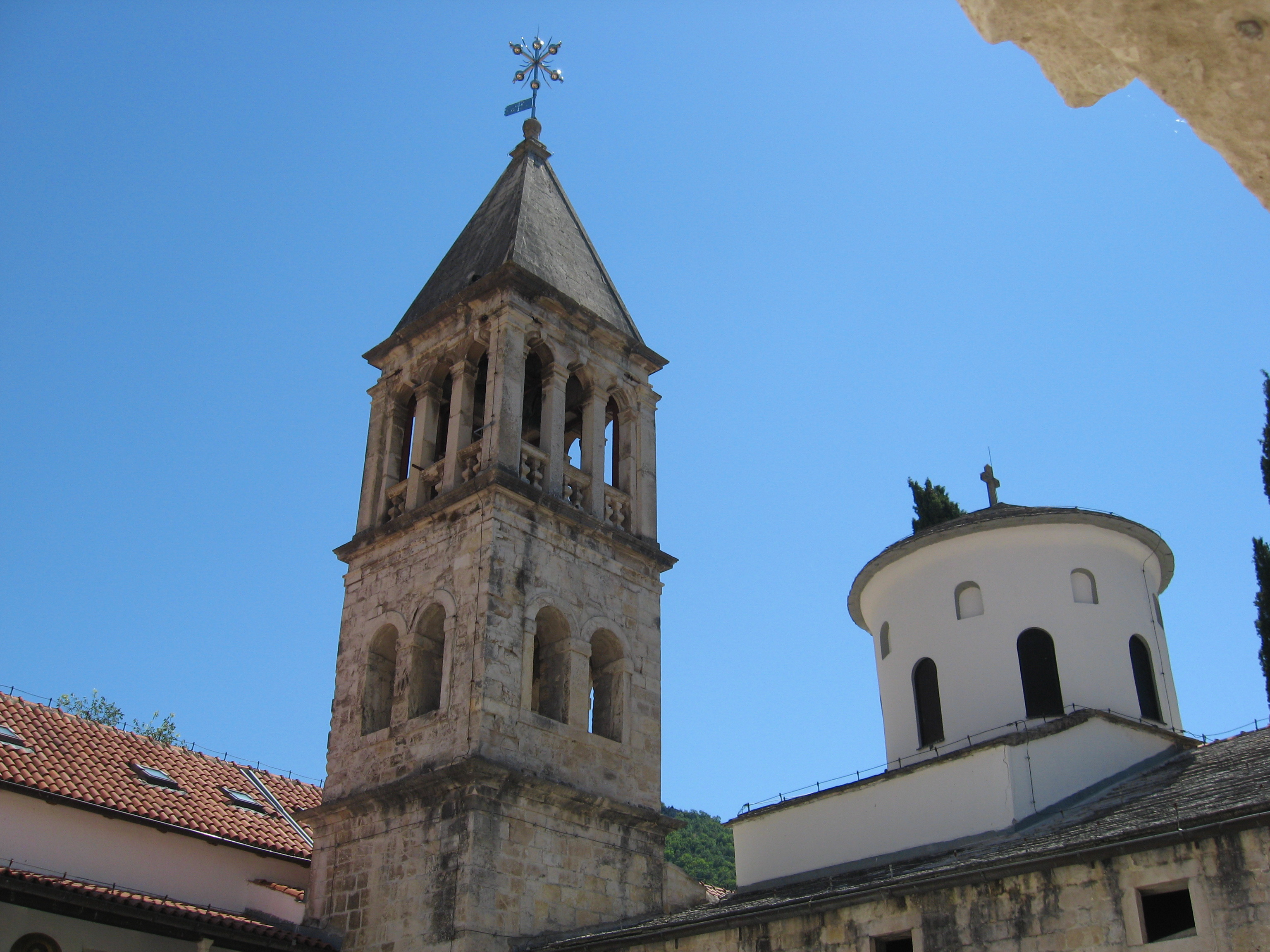 Monastery Krka - Bell tower